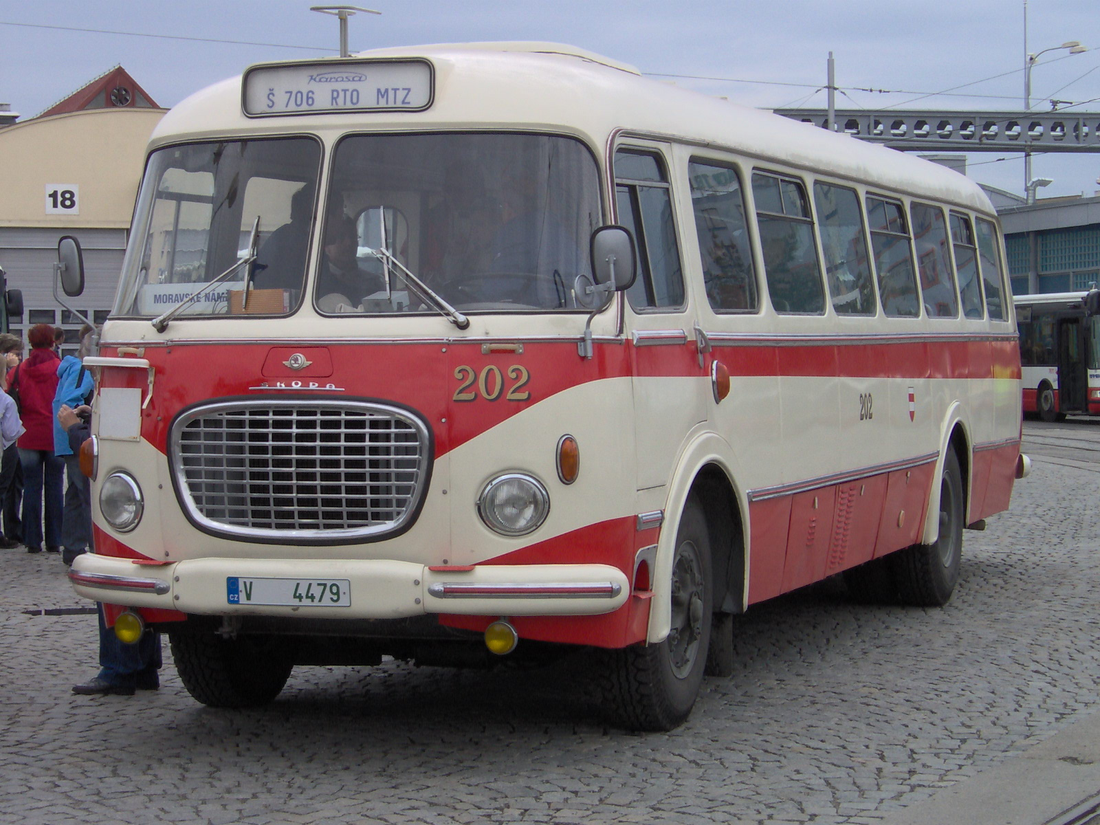 Historical Škoda 706 RTO bus in Brno